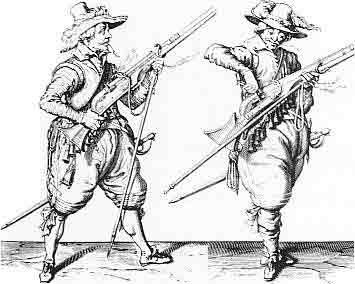 17th cent. musketeers